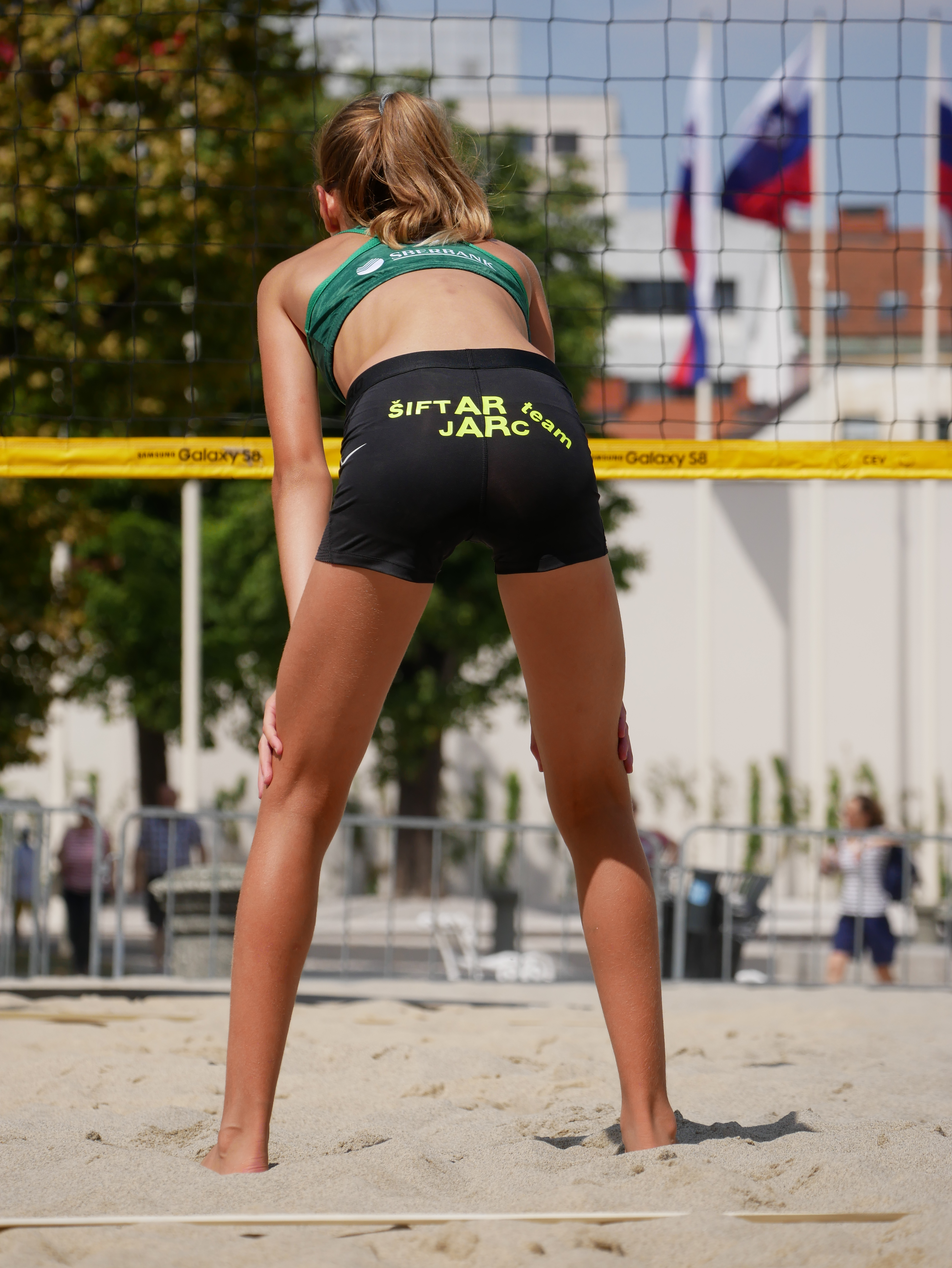 Beach volleyball (Slovenian championship 2017) This photograph was taken with a Panasonic Lumix DMC-G85/G80